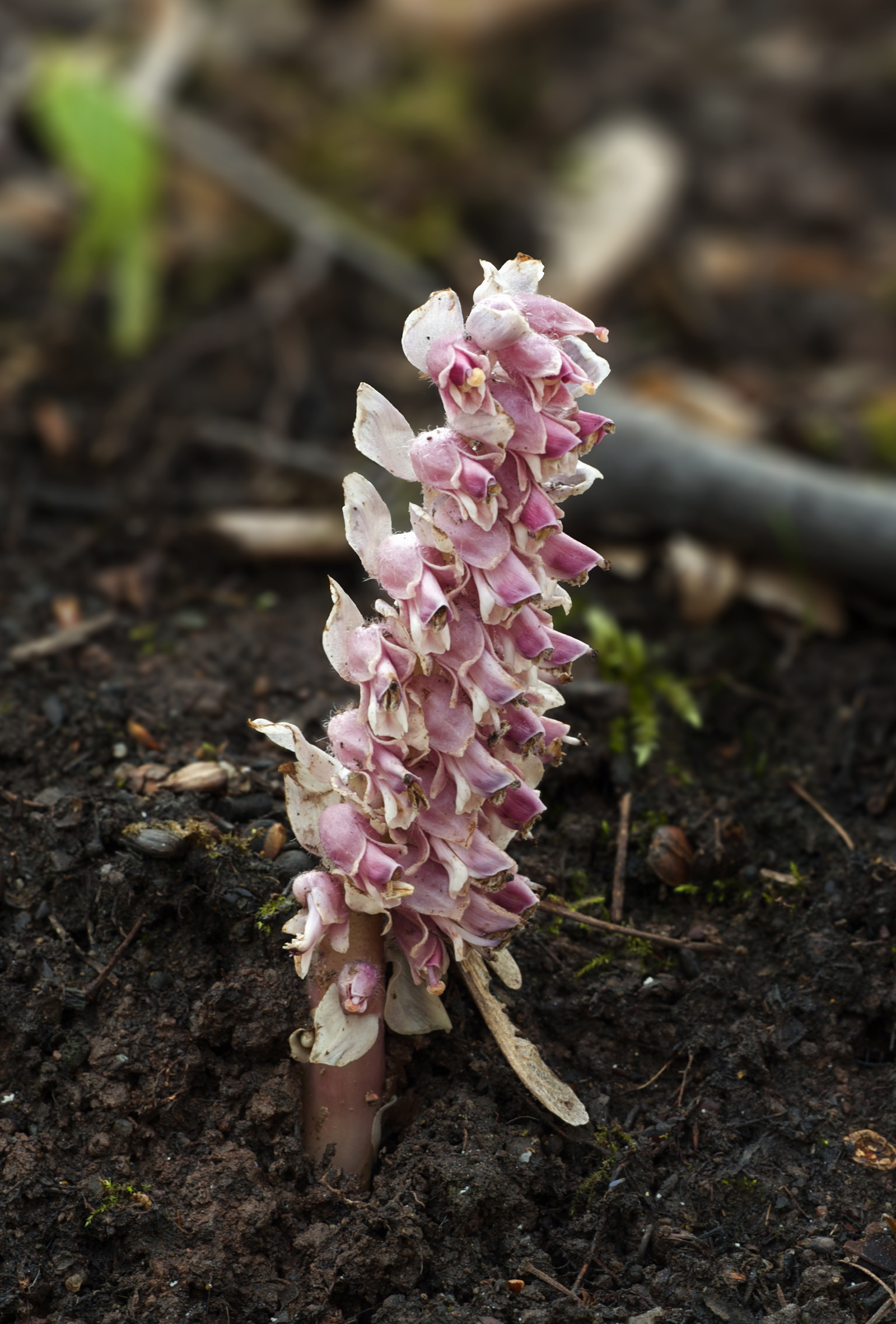 Common Toothwort (Lathraea squamaria), Chemnitz, Germany